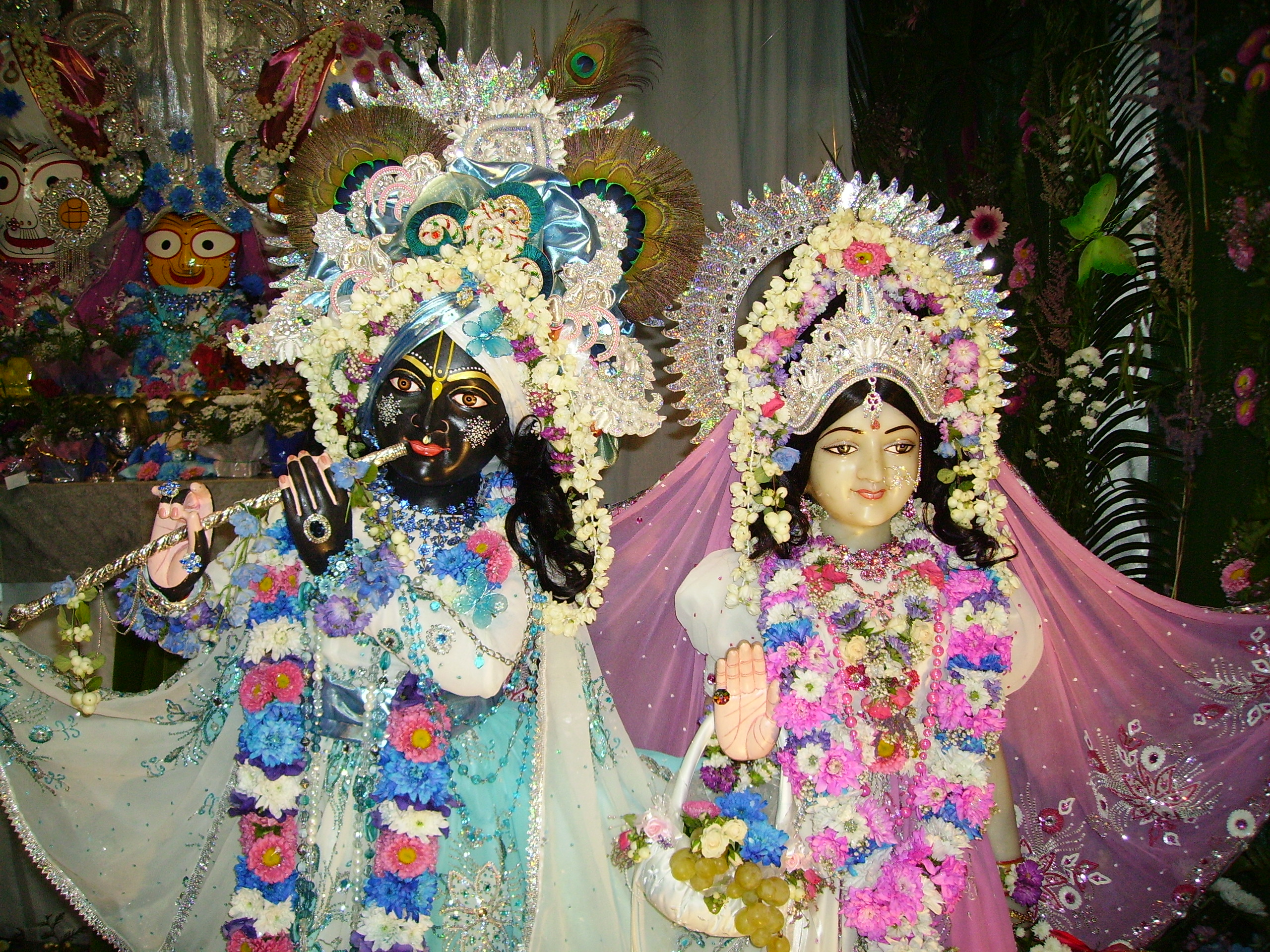 Picture shows the murtis of Sri Sri Radha-Paris-isvara in Noisy-le-Grand at the occasion of Radhastami 2008